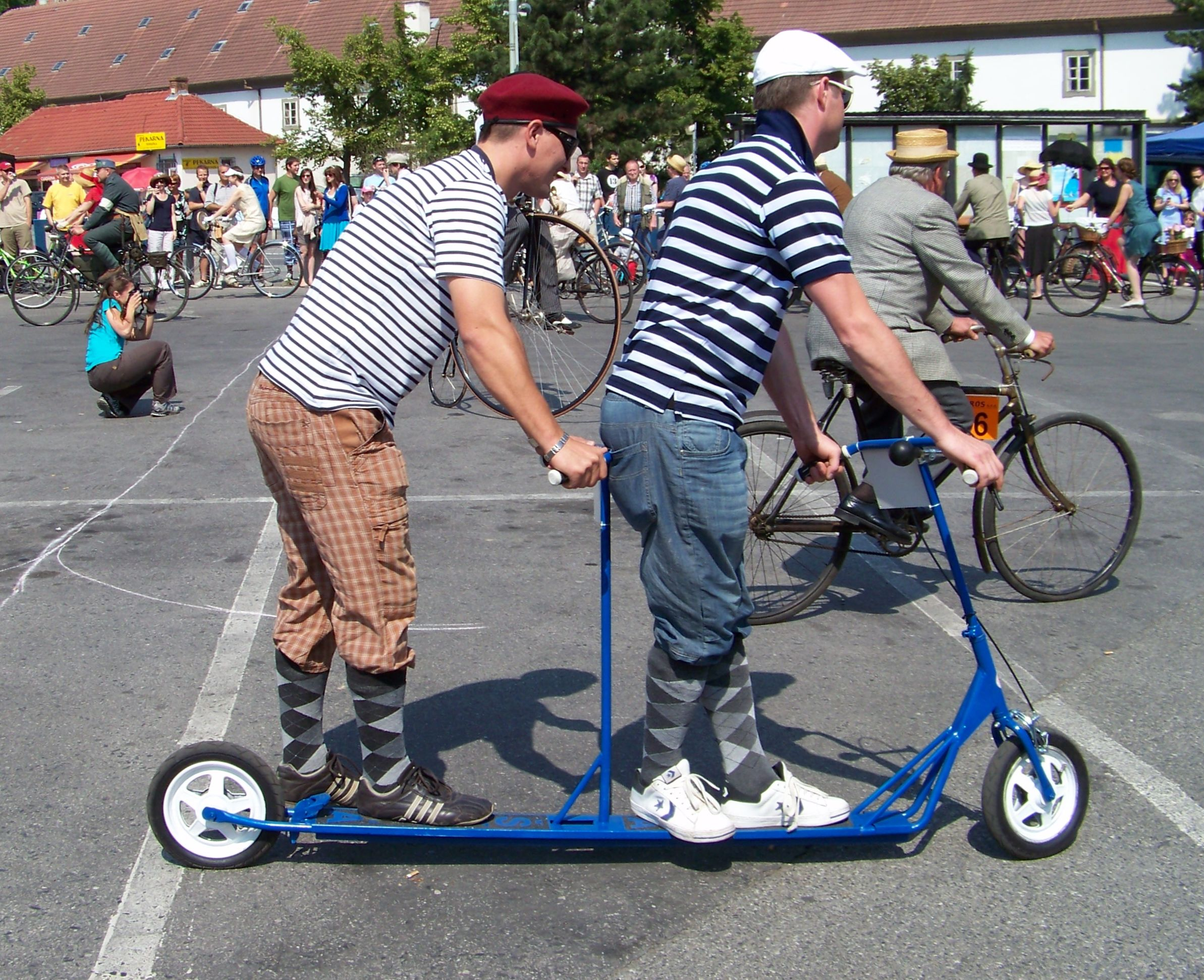 Prague-Zbraslav, the Czech Republic. Zbraslav Square, a show of Veteran Bicycle Club Zbraslav.